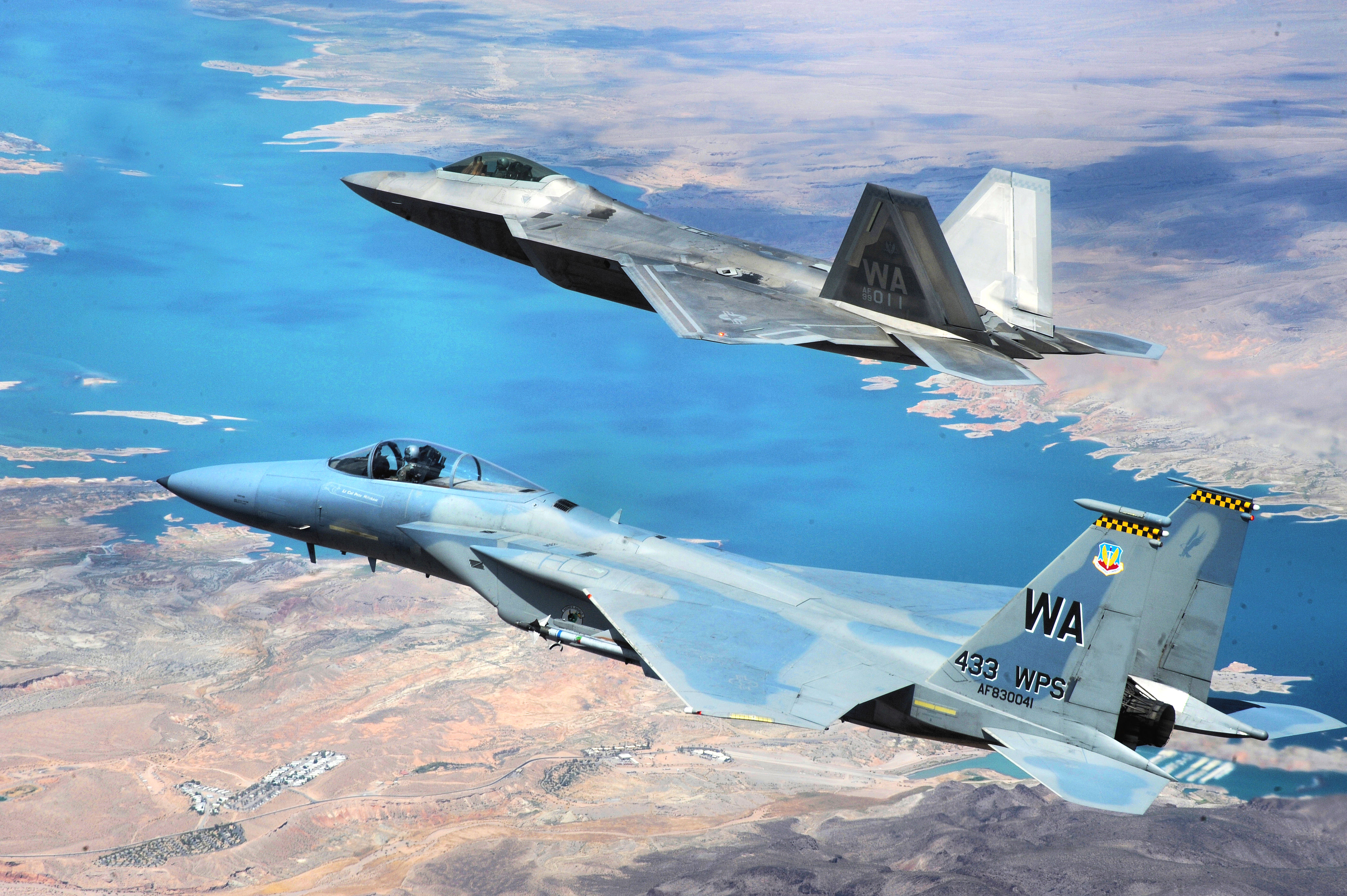 NELLIS AIR FORCE BASE, Nev.--An F-22A Raptor and F-15C Eagle from the U.S. Air Force Weapons School's 433rd Weapons Squadron fly in formation over Lake Mead, Nev., on July 16, 2010. The 433rd WPS is the only Weapons School squadron that operates two different types of aircraft. The Weapons School began in the late 1940s as the U.S. Air Force Gunnery School and teaches graduate-level instructor courses, providing advanced training in weapons and tactics employment.